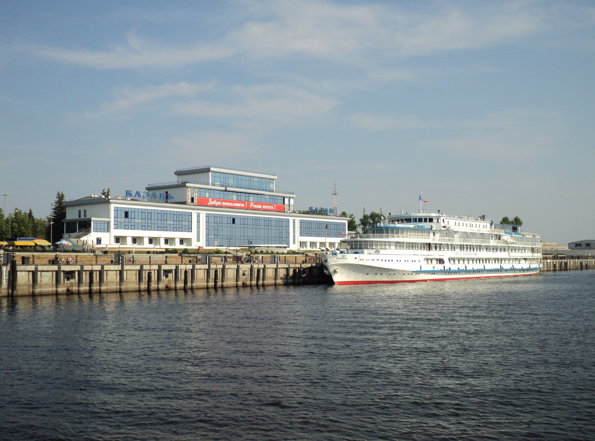 Kazan River Station. River boat Khirurg Razumovskiy (project 588, built in Germany in 1961).